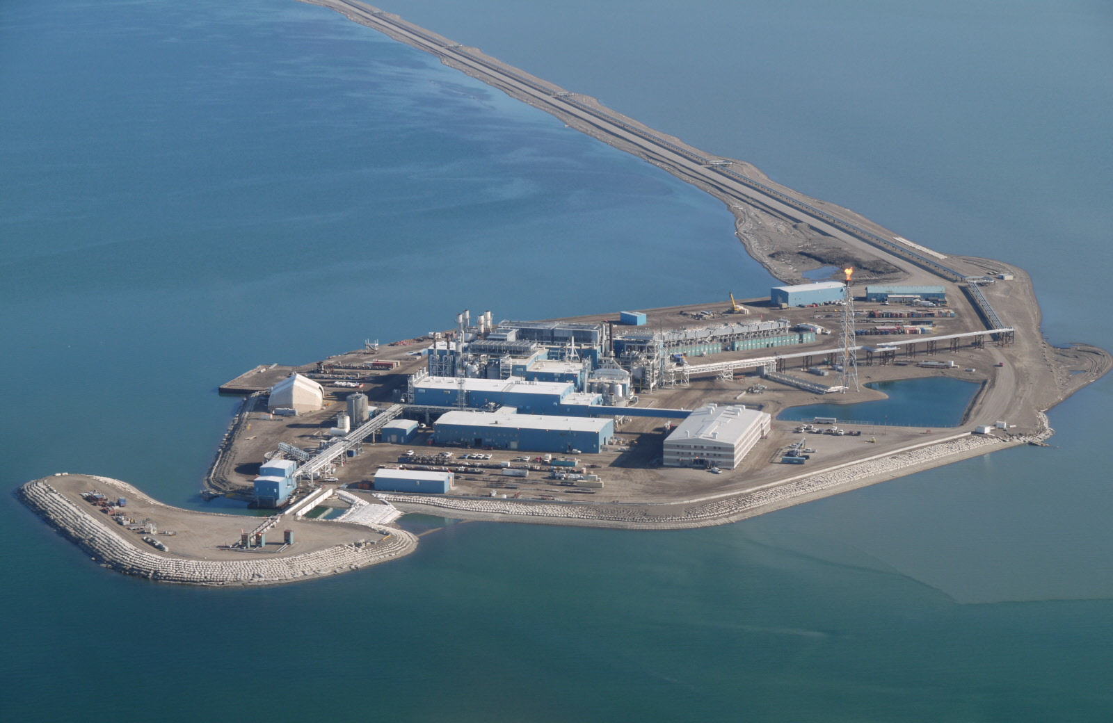 Aerial view of Endicott Island